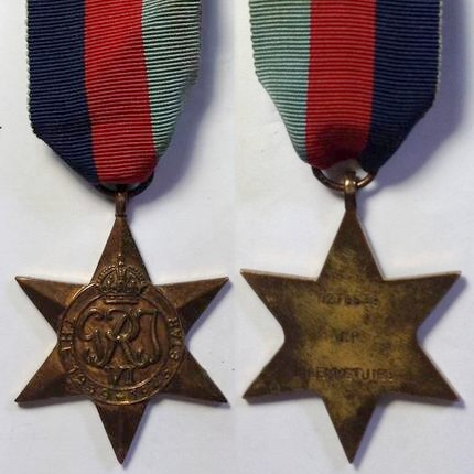 The 1939-1945 Star with the recipient's details impressed on the reverse, as was only done with Australian, Indian and South African awards. (Awarded to C276539 J.P. Lemmetjies.)